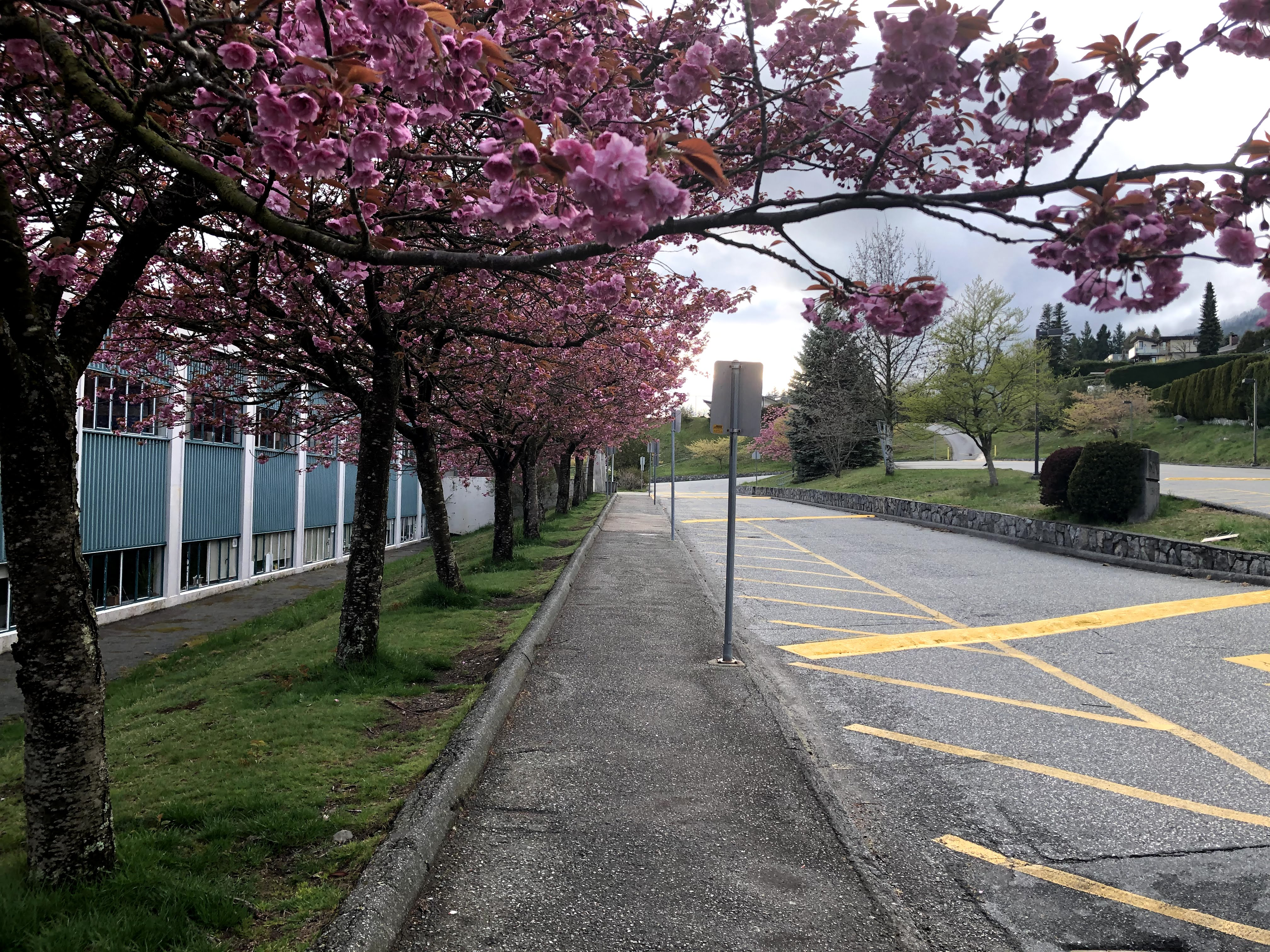 Sentinel school driveway looking towards foyer